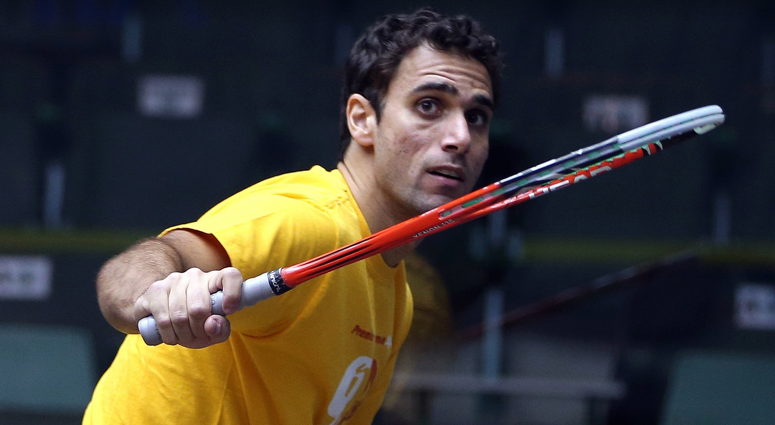 Karim Darwish during the World Championship in Doha